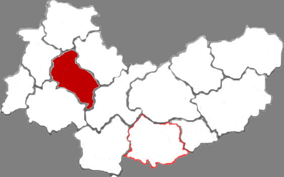 Location of Wuzhai county in Xinzhou City, China